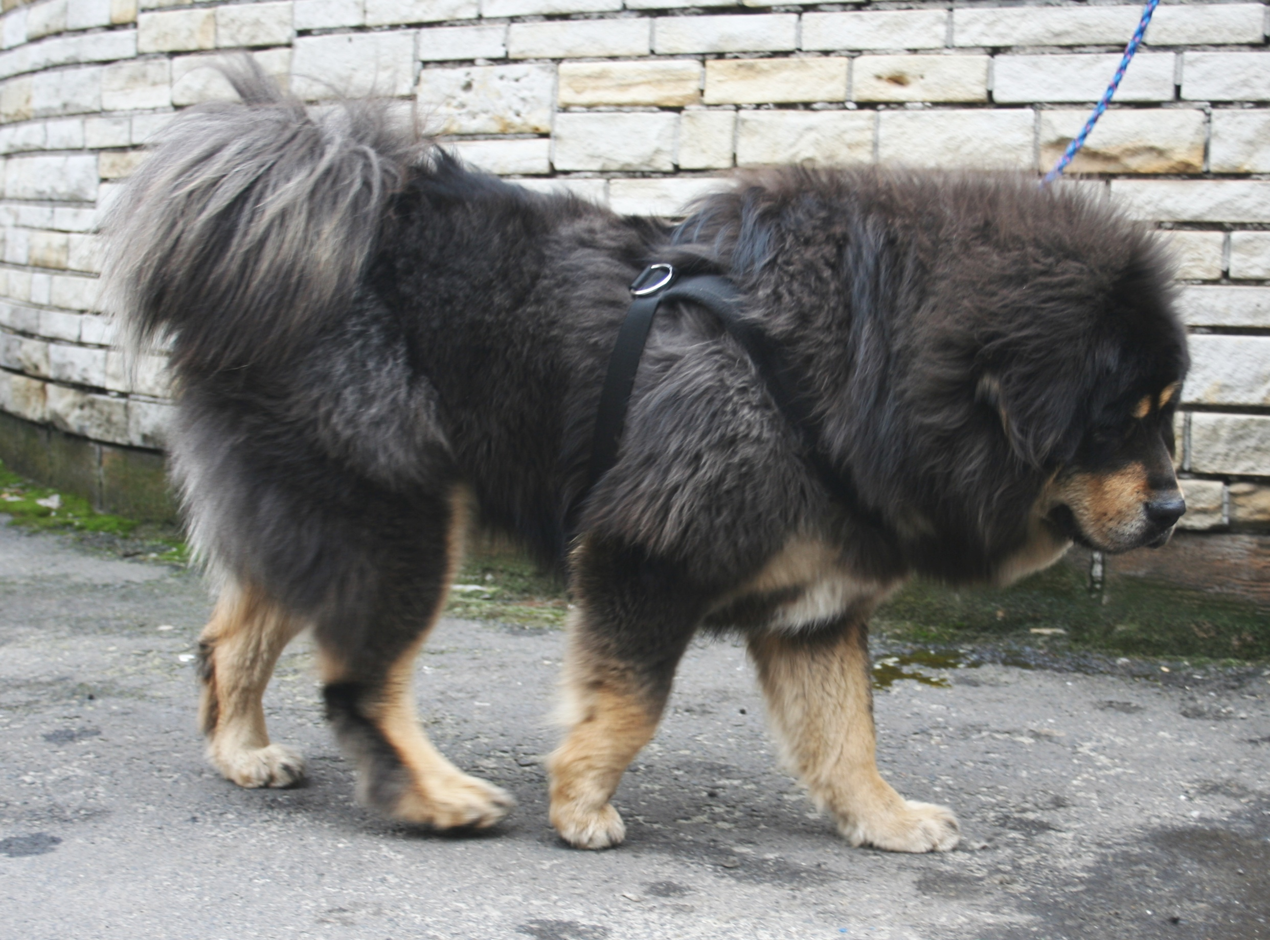 Tibetan Mastiff - dog during the international dogs show in Katowice, Poland. His name is Bagmati KHYI FADO which is called Hando. The owner is Marcin Krasoń from Poland.